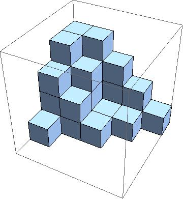 Example of a plane partition